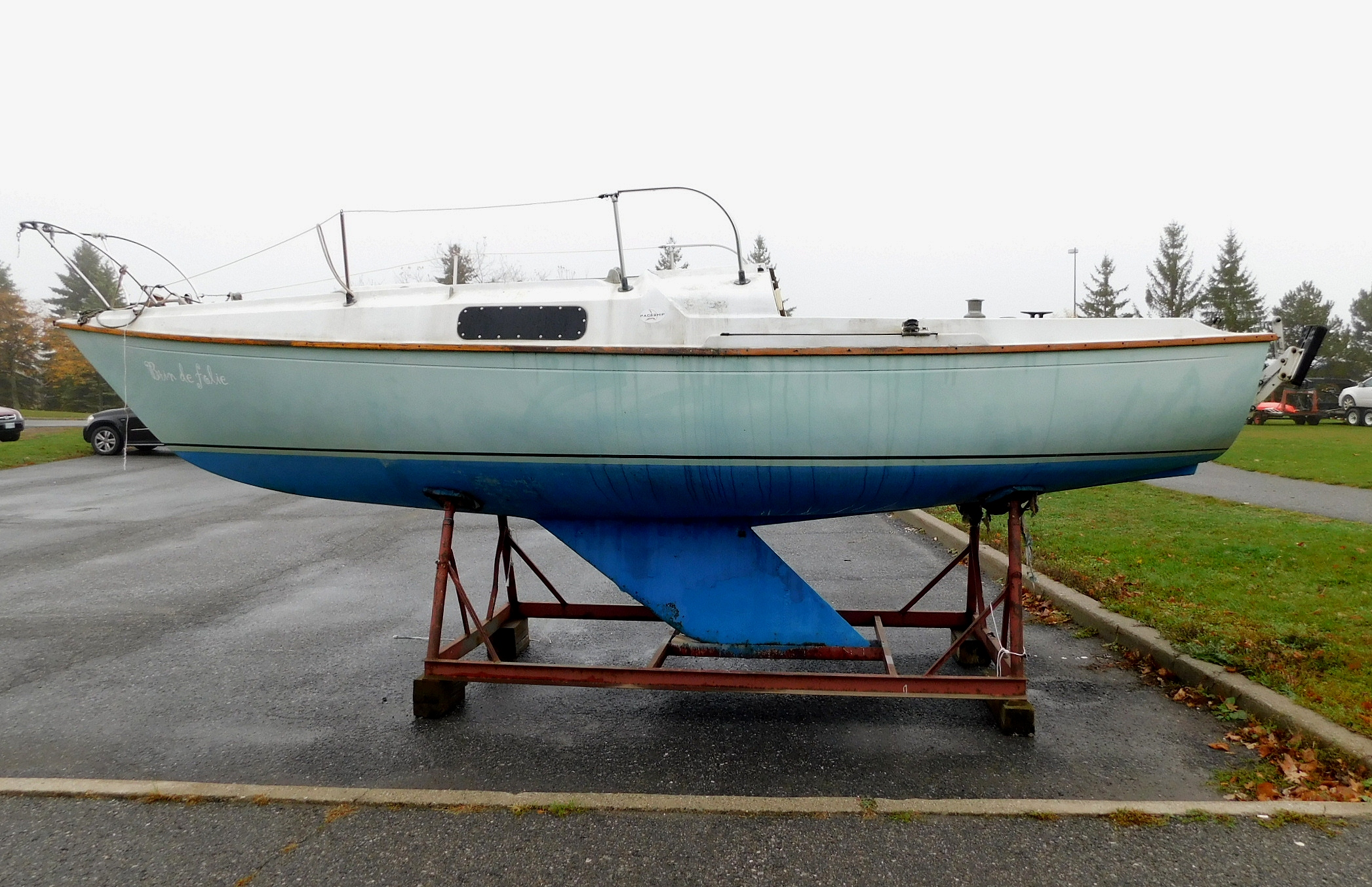 A Paceship 23 sailboat named Brin de Folie on its cradle, showing the keel configuration.